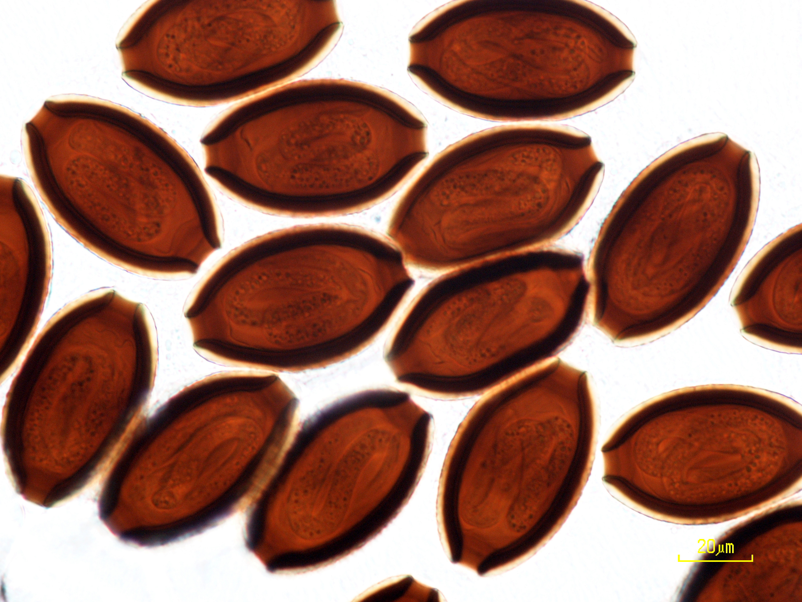 Huffmanela hamo Justine & Iwaki, 2014 (Nematoda, Trichosomoididae) eggs from somatic musculature of dagger-tooth pike conger, Muraenesox cinereus. Microscope photograph. Photograph by Takashi Iwaki. Similar to Figure 1D in published paper: Justine, J.-L. & Iwaki, T. 2014: Huffmanela hamo sp. n. (Nematoda: Trichosomoididae: Huffmanelinae) from the dagger-tooth pike conger Muraenesox cinereus off Japan. Folia Parasitologica, 63, 267-271.